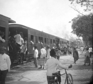 Halt of the Madoera Steamtram Company on Madura